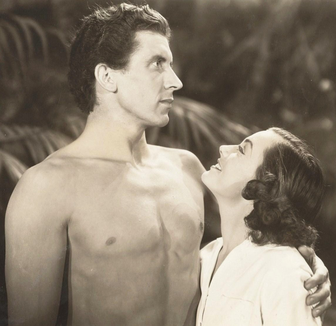 Glenn Morris & Eleanor Holm in Tarzan's Revenge - publicity still (damaged, modified and cropped)